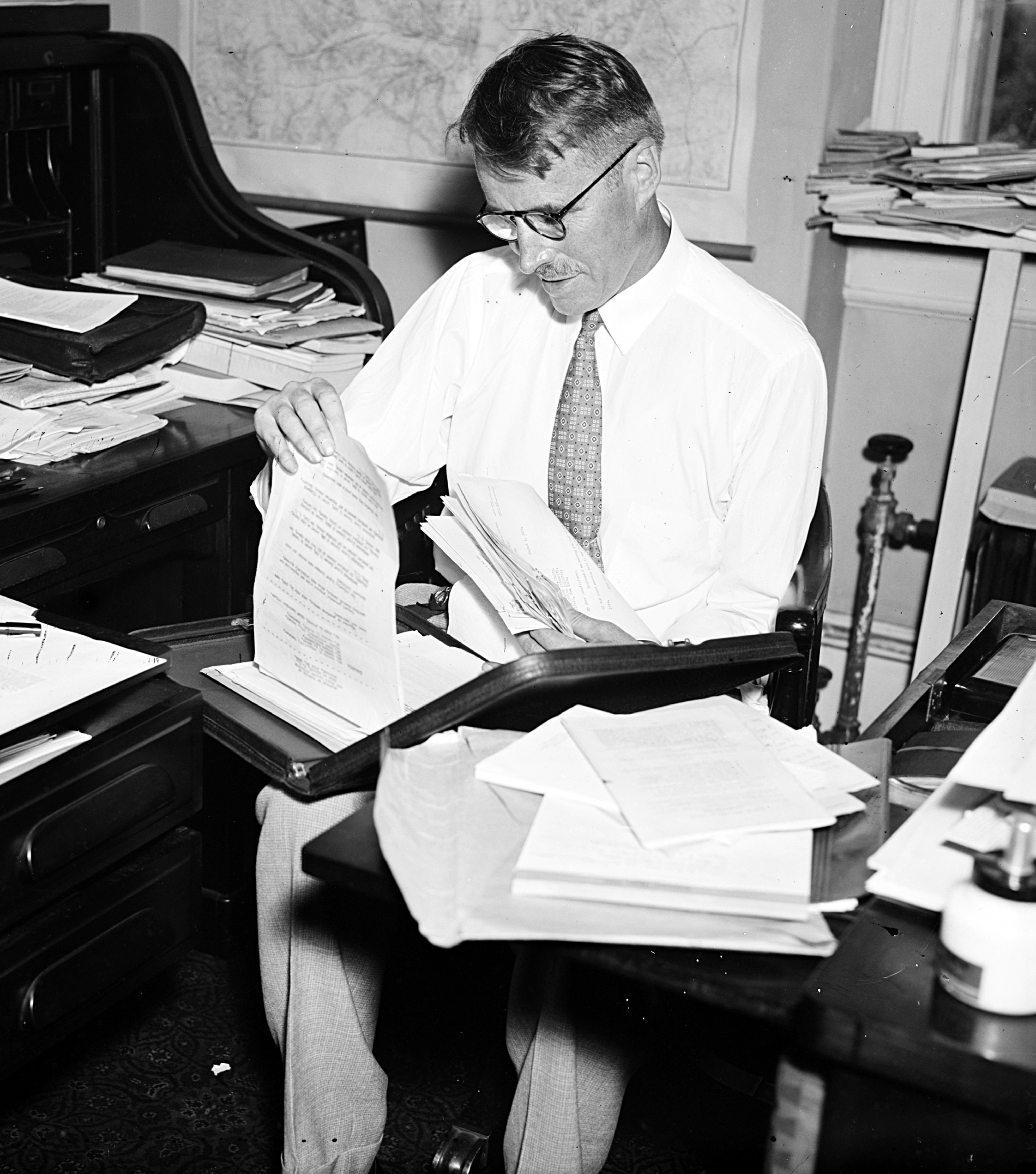 James P.B. Duffy, US Representative from New York